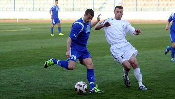 Matko Djarmati like player of KS Dinamo Tirana in season 2012